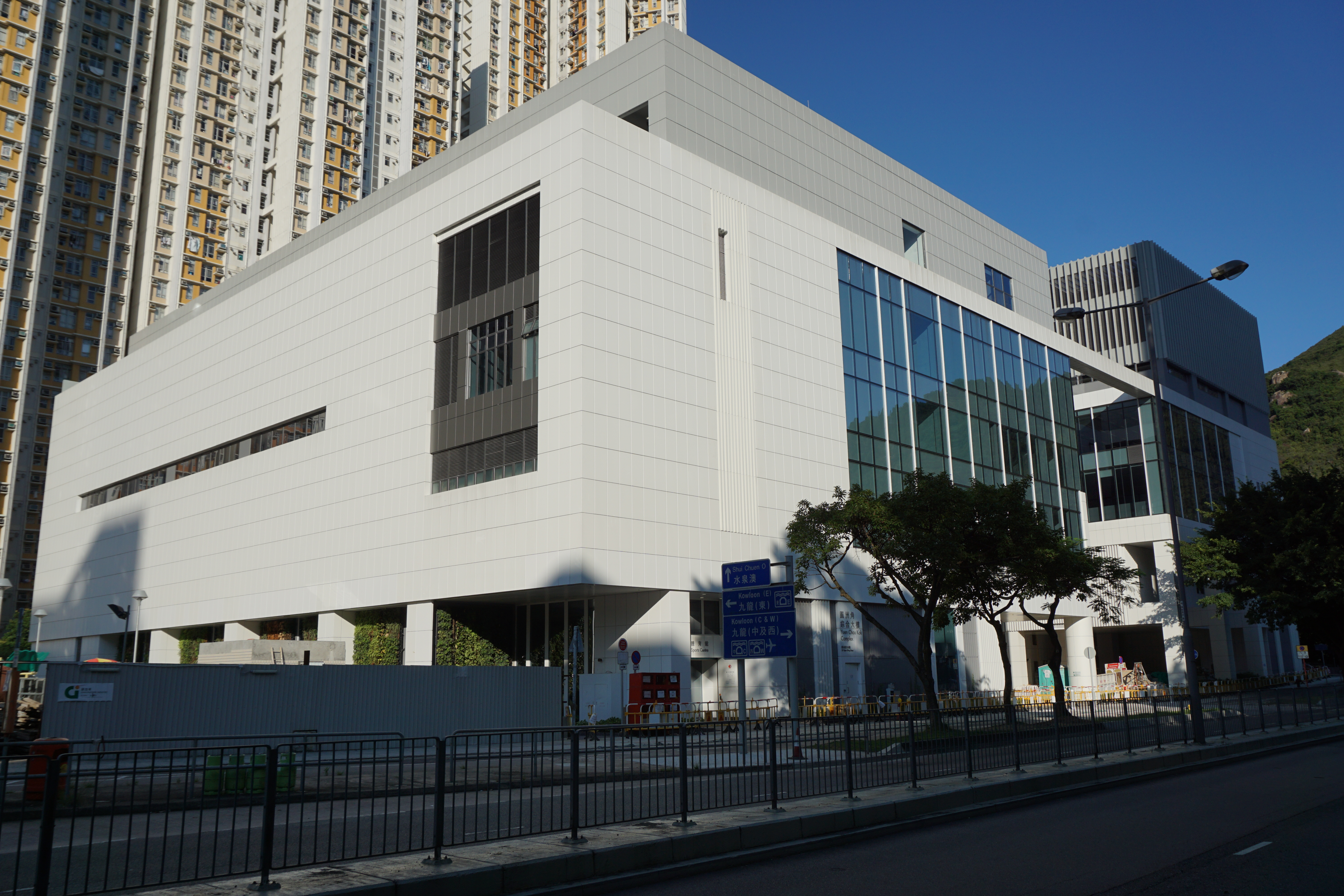 Complex in Yuen Chau Kok, Hong Kong.